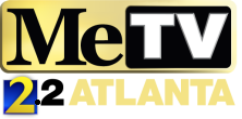 MeTV 2.2 Atlanta logo, used for WSB-TV